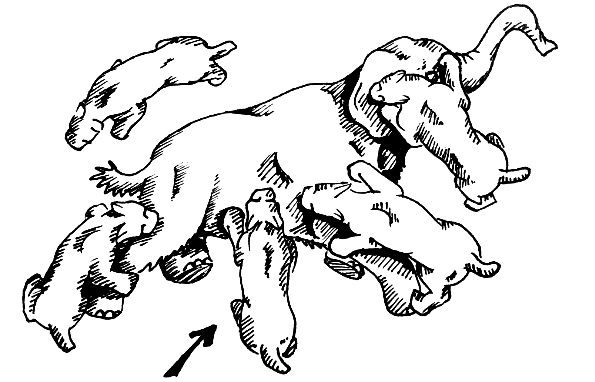 a diagram of a group of feline machairodont Homotherium individuals using the "shearing bite" hpythesis to wound a prey animal. i have no scanner at my disposal, so i used a samsung camera to take a picture of the drawing, created with an ultrafine sharpie and a sheet of standard printing paper. from there it was uploaded, the contrast and brightness modified to be as clear as it was on the sheet origionally, and uploaded here.